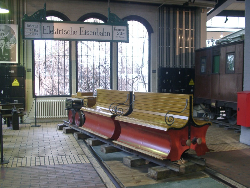 The 1st Electric Locomotive produced by Siemens.